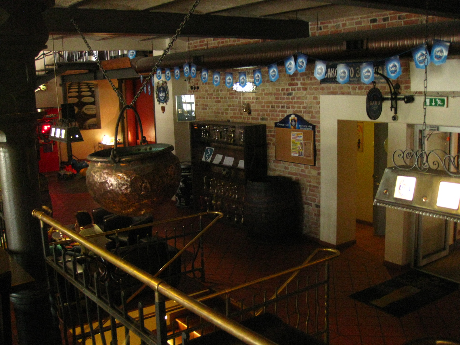 Bar-museum of Saku Brewery